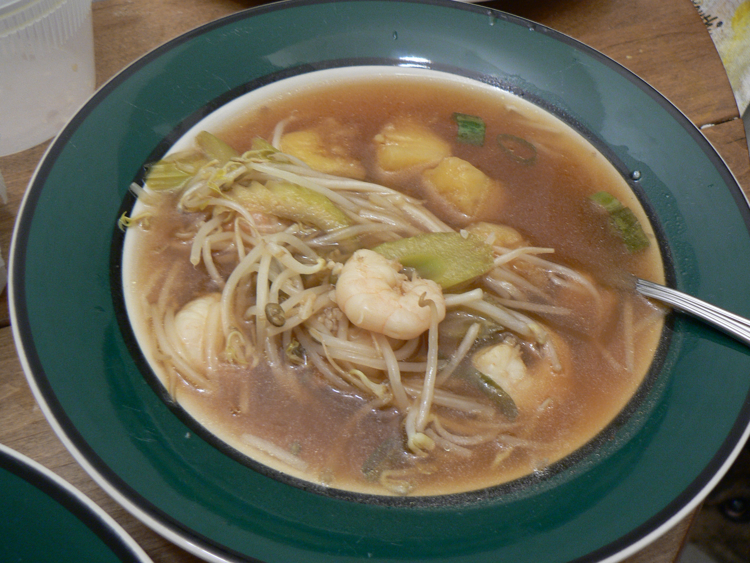 A bowl of canh chua.